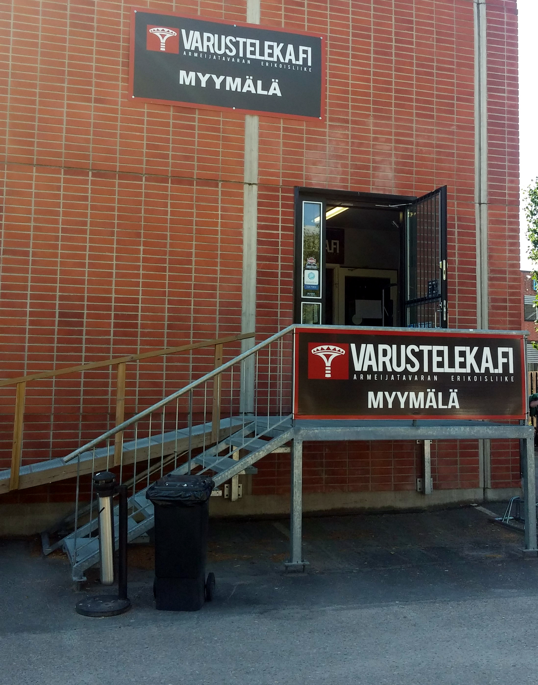 Varusteleka is an army and outdoor store located in Finland.